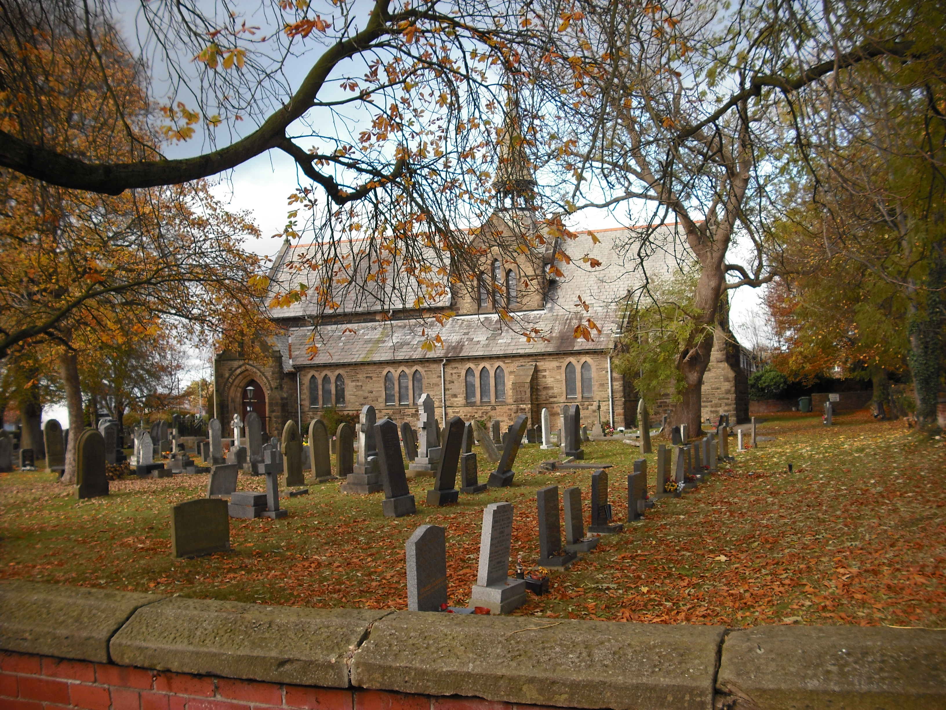 St Paul's parish church, Warton, Lancashire, seen from south-southeast